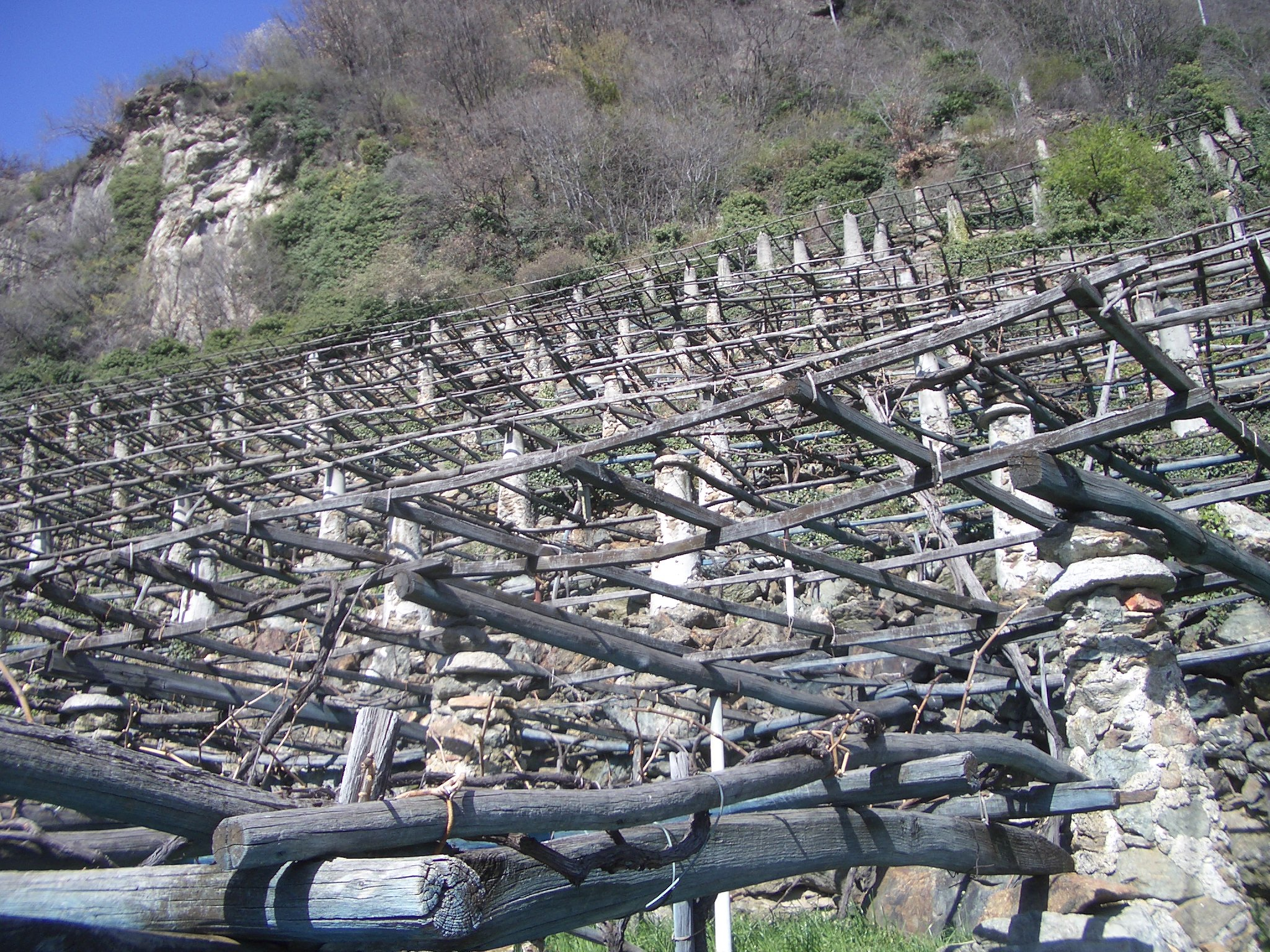 Carema, Vineyards)